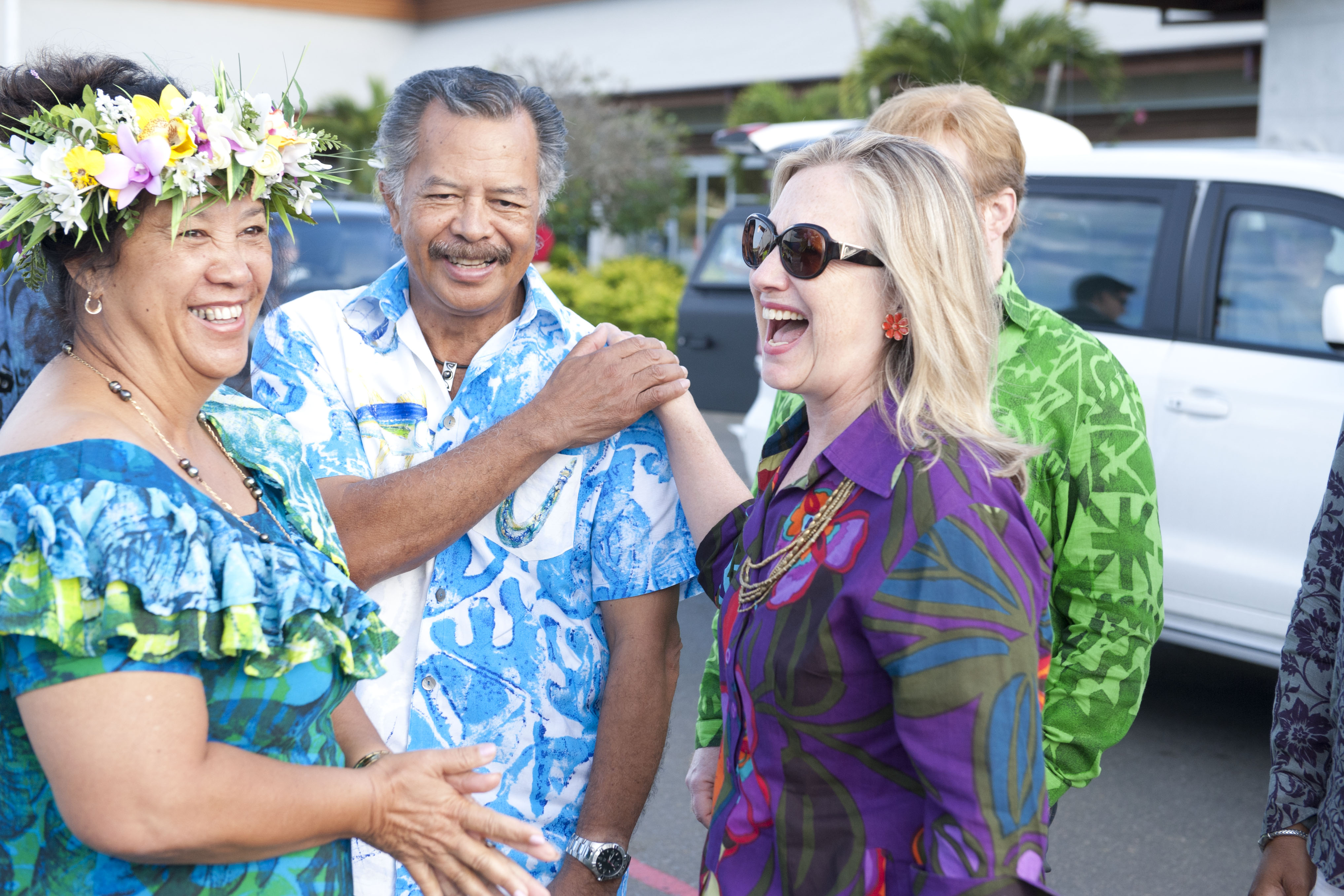 U.S. Secretary of State Hillary Rodham Clinton shares a laugh with Prime Minister Henry Puna and Mrs. Akaiti Puna of the Cook Islands at the airport in Rarotonga, Cook Islands, September 2, 2012. [State Department photo by Ola Thorsen/ Public Domain]